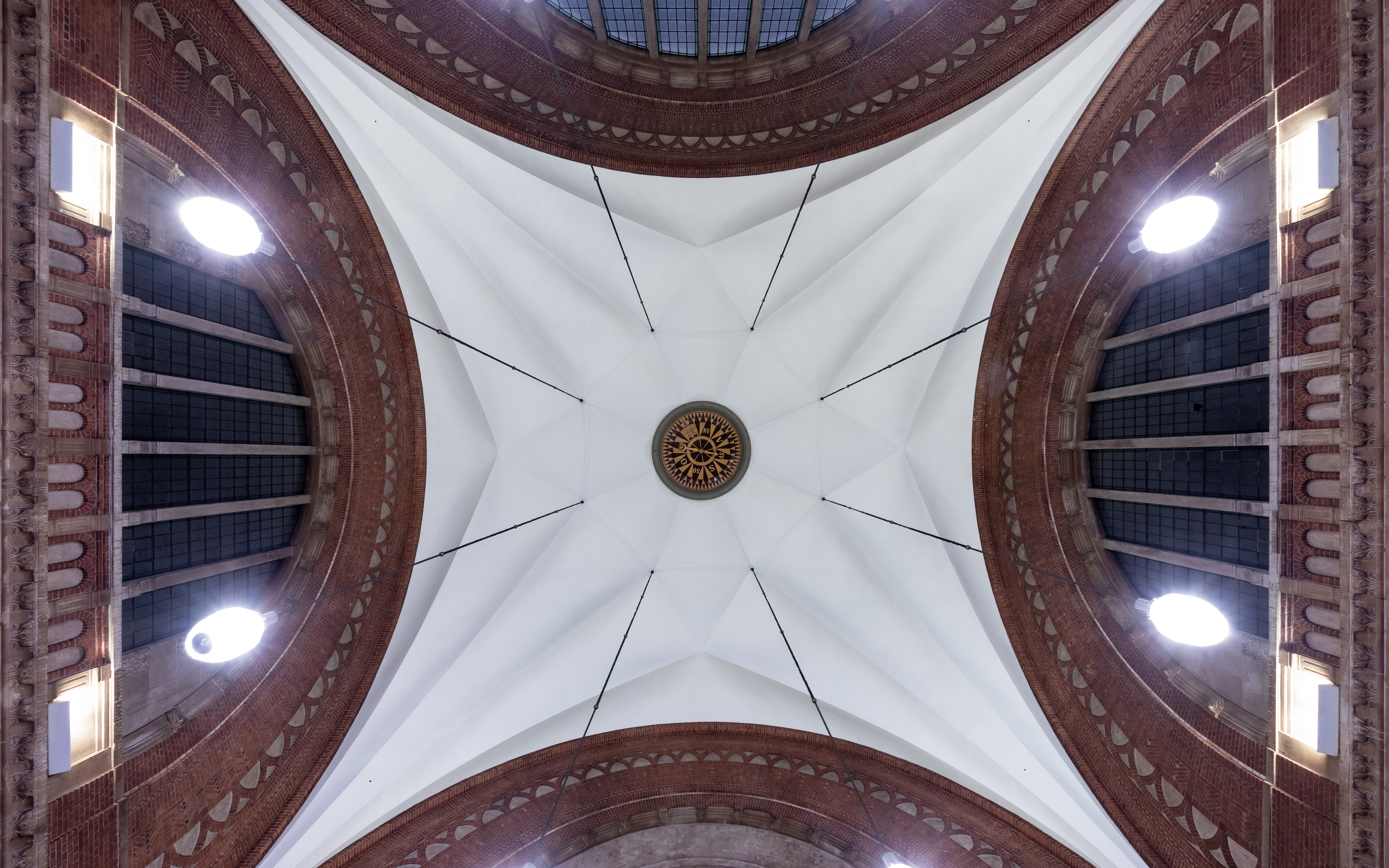 Entrance hall of Copenhagen train station